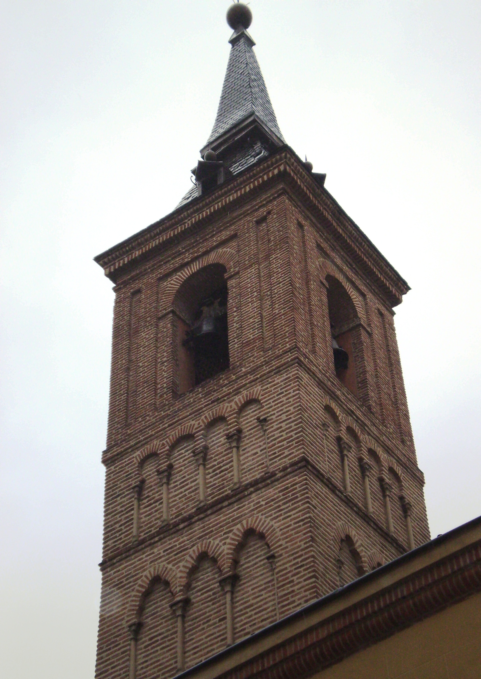 Tower of the Church of San Nicolás de los Servitas, Madrid, Spain. 12th century